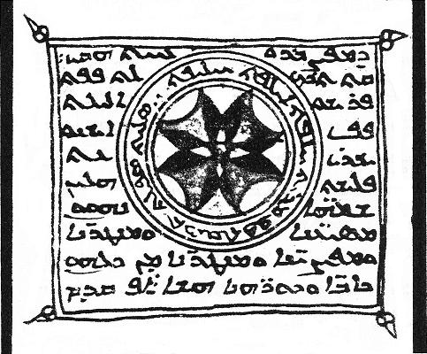 The Names of God on the Ring of King Solomon. An illustration from the Syriac manuscript named Codex A by Hermann Gollancz, which is a collection of Eastern Christian charms and incantations associated with the Assyrian Church of the East.